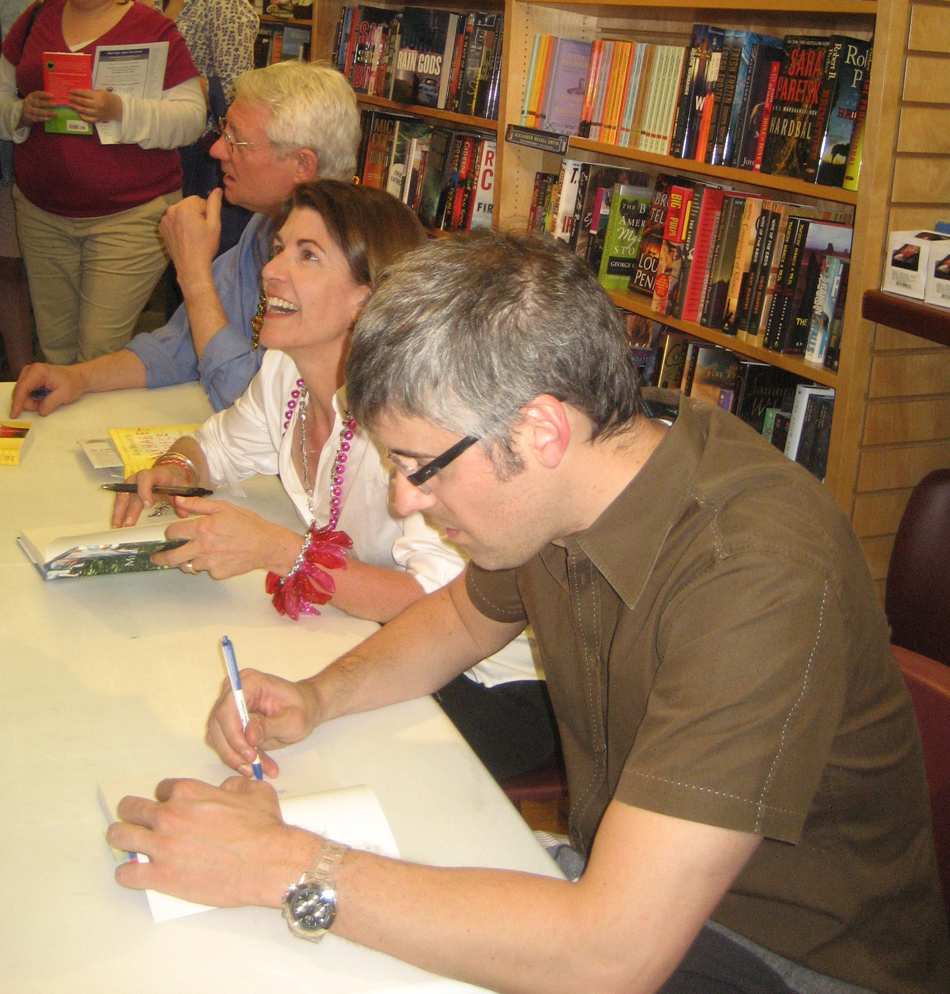 Reception for panelists of National Public Radio show "Wait Wait... Don't Tell Me" at Octavia Books, Uptown New Orleans. From front to back: Mo Rocca, Amy Dickinson, Roy Blount, Jr.